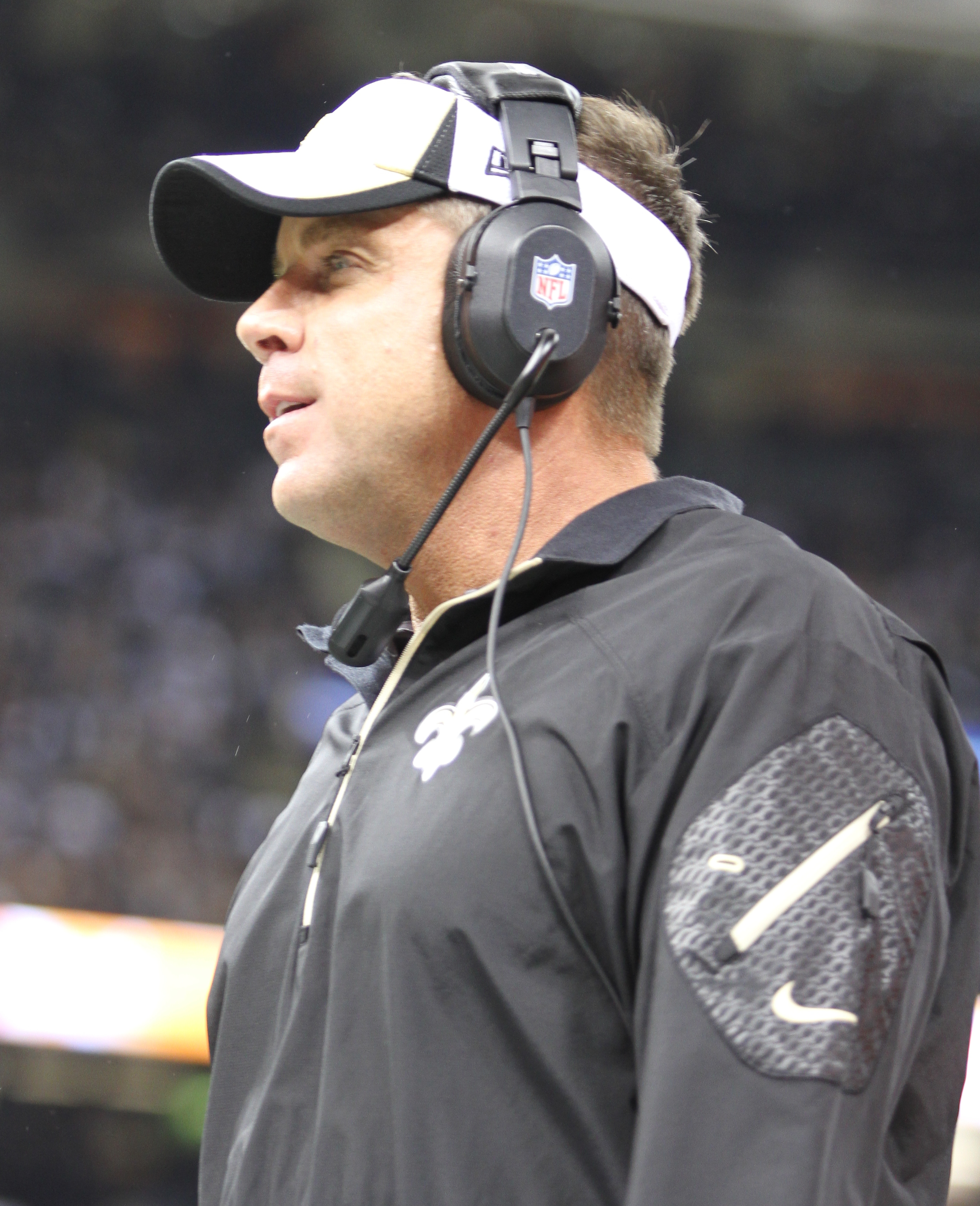 Head Coach Sean Peyton, New Orleans Saints vs Carolina Panthers, Mercedes Benz Superdome, New Orleans, Louisiana, December 2013, Tammy Anthony Baker, Photographer